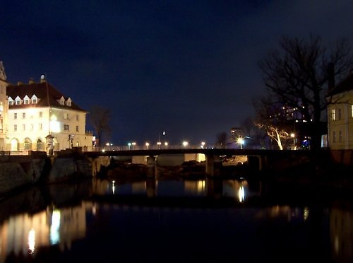 Cathedral Bridge in OpoleMost katedralny, w Opolu